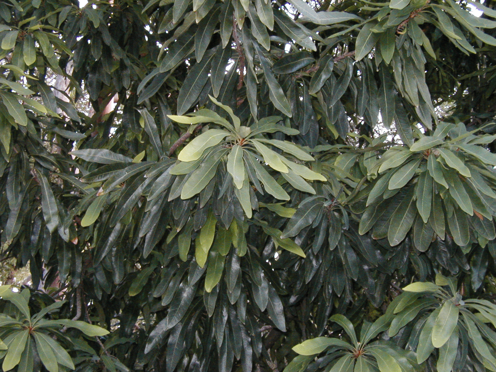 Alloxylon flammeum, foliage - Stony Range Flora Reserve, Dee Why NSW